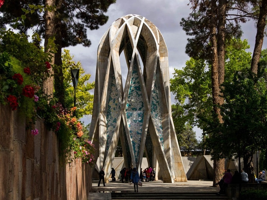 Omar Khayyam Mausoleum, Nishapur - 11 May 2018 main album